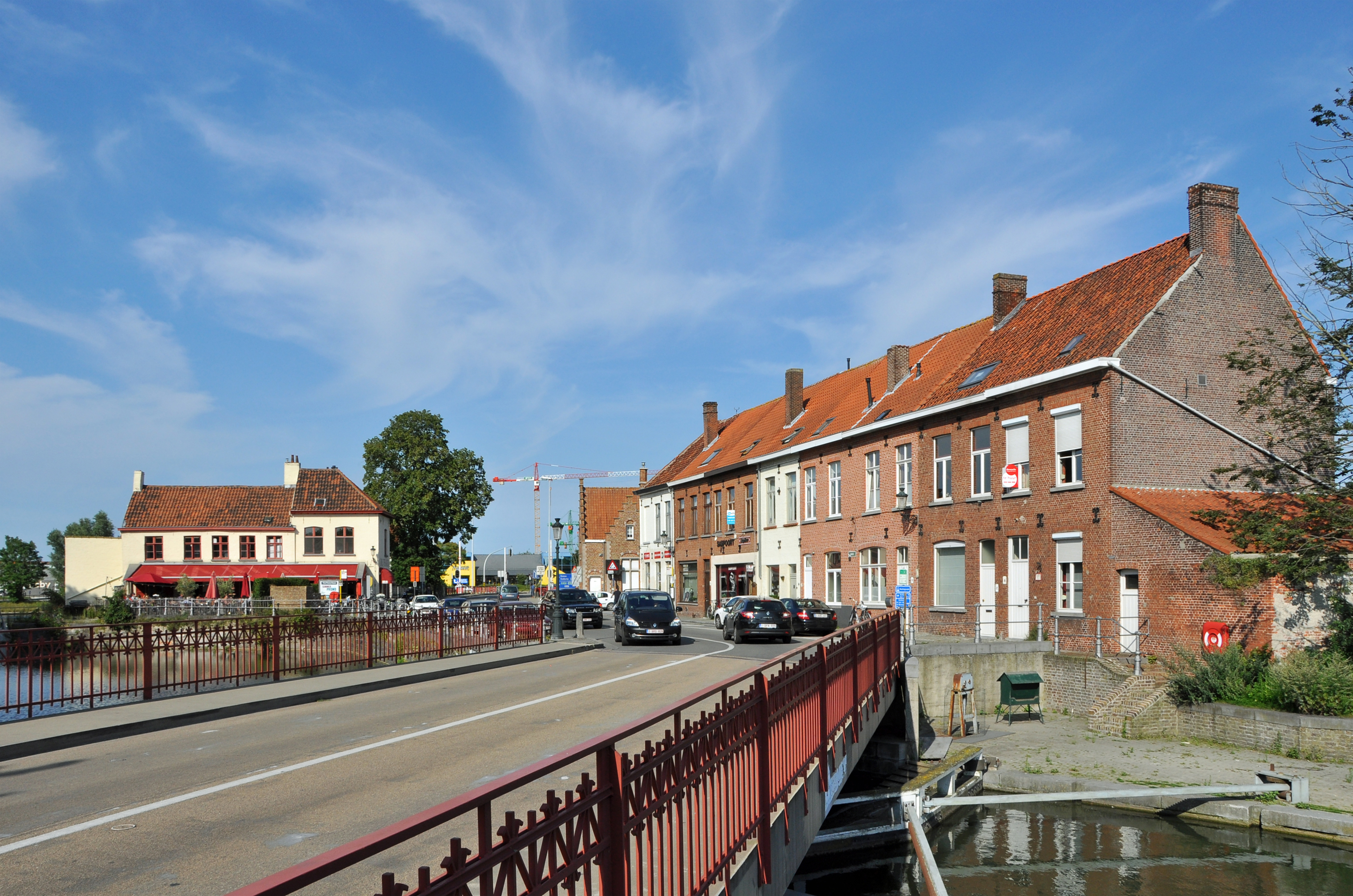 Bruges (Belgium): Sasplein. Foreground: the bridge on the old Dampoort lock. Background left: Du Phare inn, heritage building.